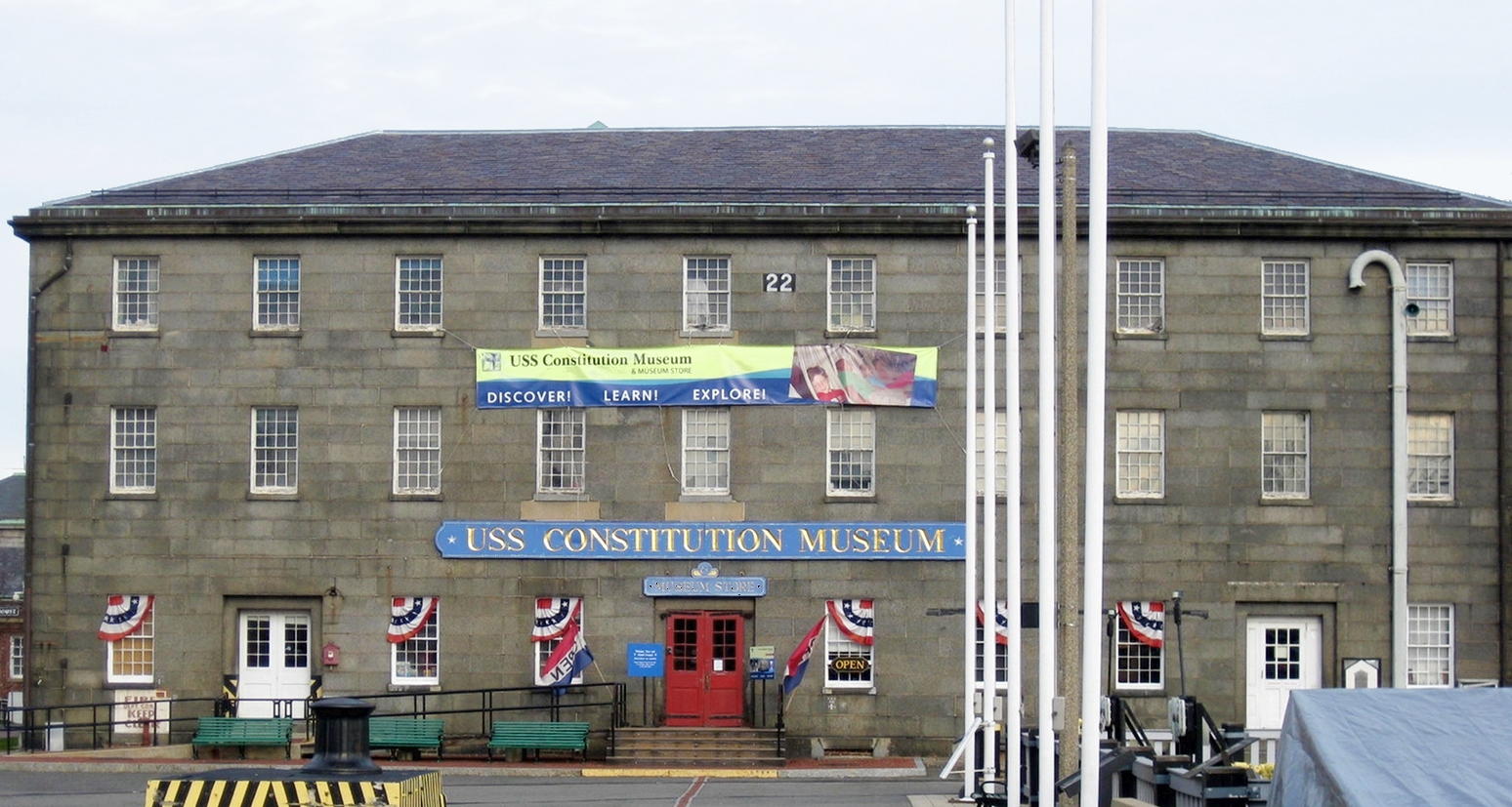 USS Constitution Museum, Boston, located in Boston Navy Yard, part of the Boston National Historical Park.